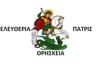 Flag of Greek Revolutionary Markos Botsaris